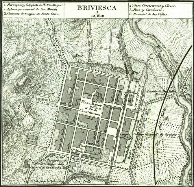 Map of Briviesca cropped from the 1868 province of Burgos map by Francisco Coello